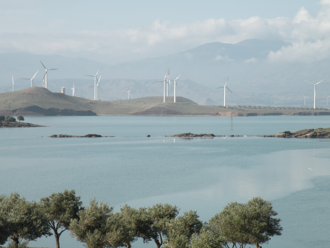 شهر منجیل - فرستنده - منجیل نیوز